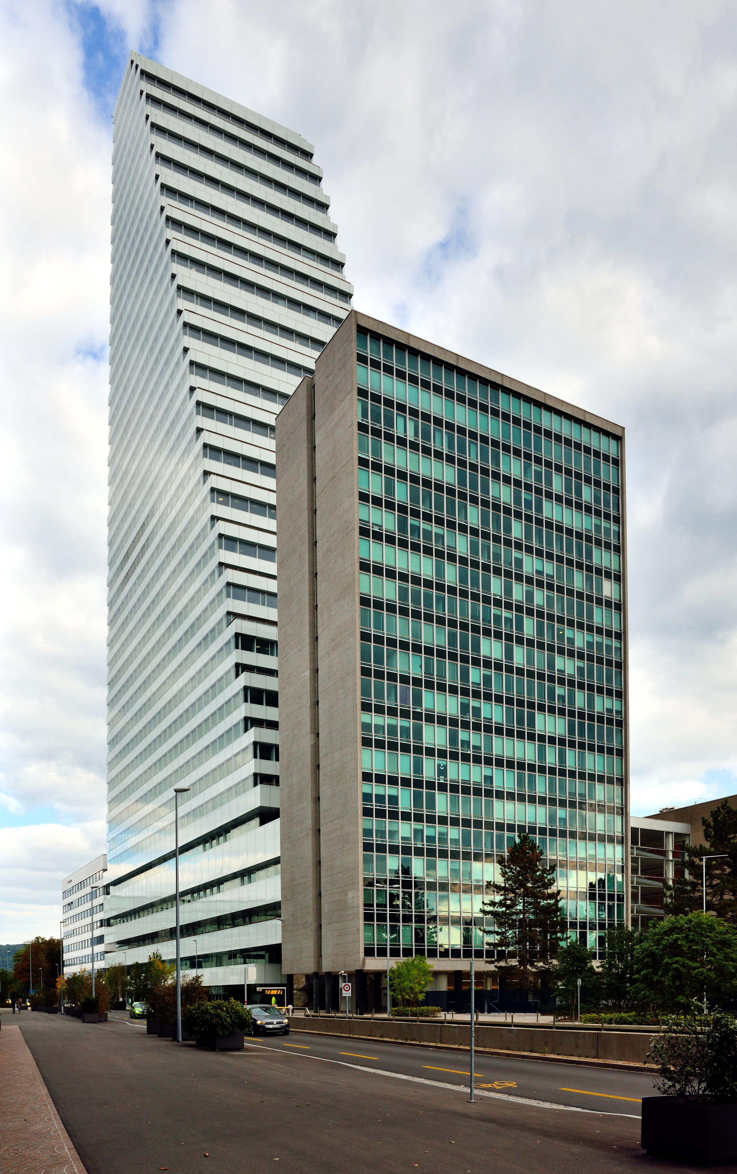 Basel: Roche Tower